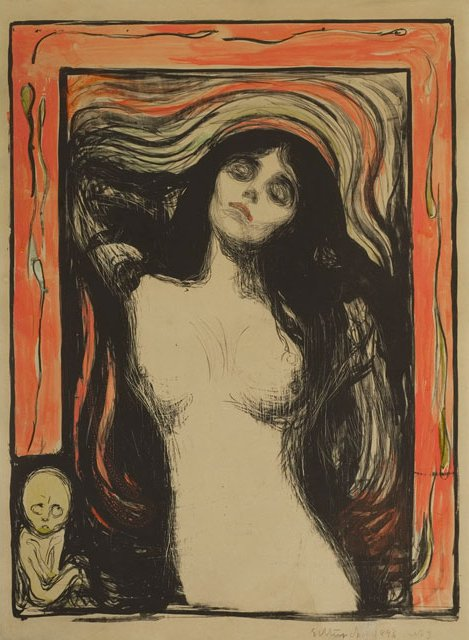 Madonna by Edvard Munch, 1895-1896, lithograph printed in black, with hand coloring on light gray-green cardboard, 25 x 18 in (64.8 x 47.2 cm)